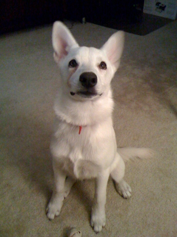 Lyka White Shepherd 4 Months old doing her BOLT impersonation.